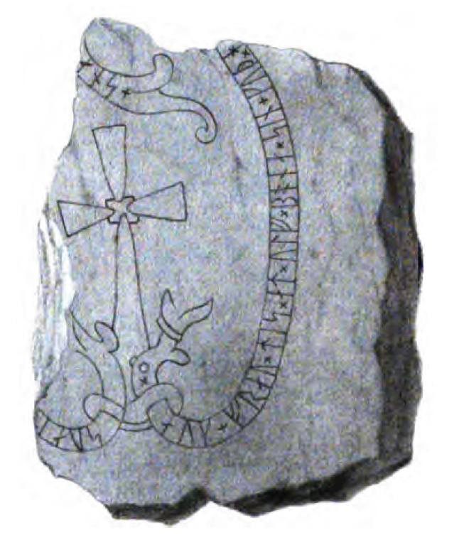 The runestone U 390. The inscription reads × sua[i]... ... ...sa × s(t)ain --... ...------... ...- × faþur sin × auk × frau×tis + at × ulf × bona × sin × kuþ × h... ... ...ans + In English "Sveinn [had] this stone raised in memory of ... his father and Freydís in memory of Ulfr, her/their husbandman. May God help his spirit. "